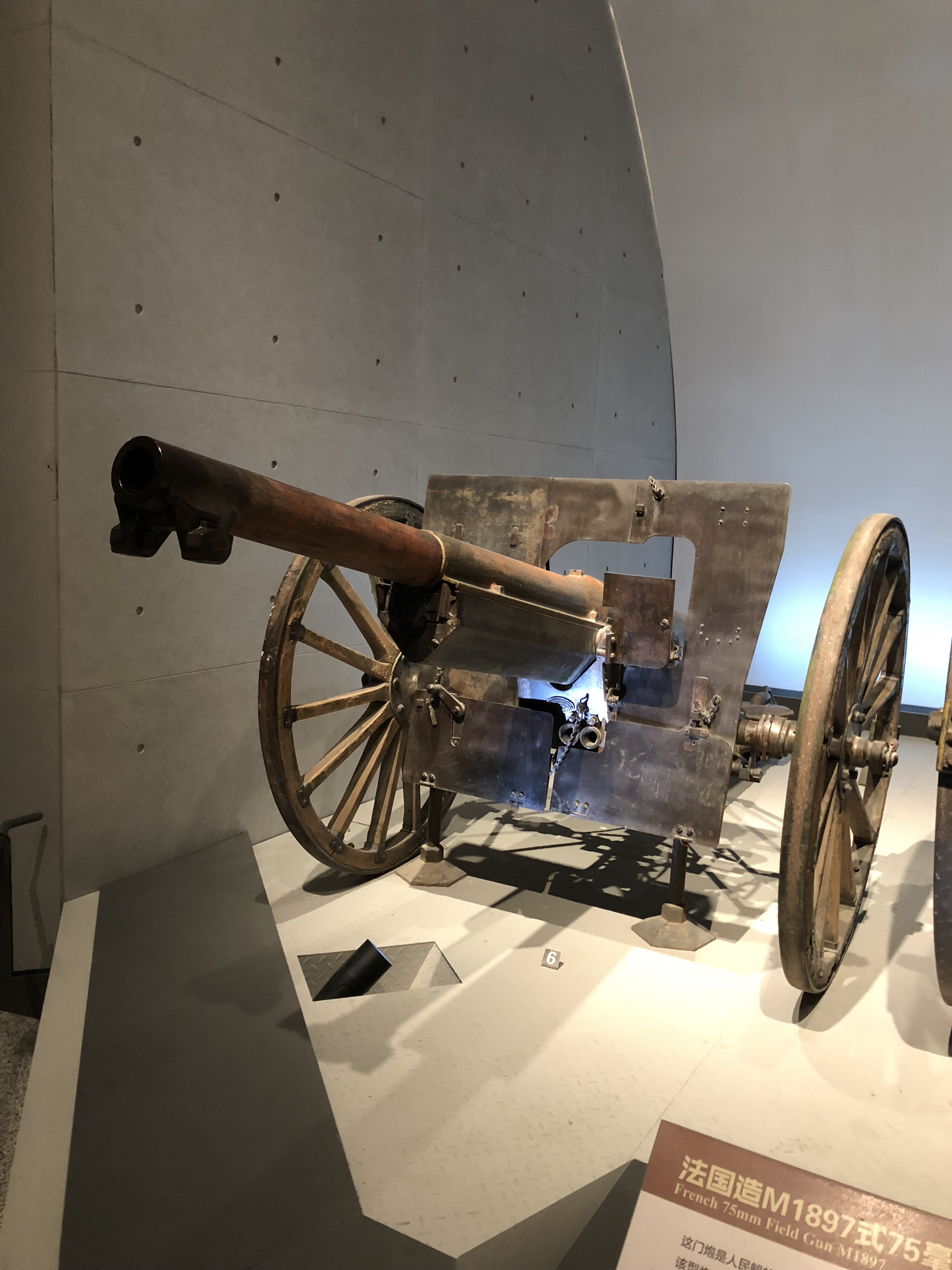 France field gun M1897 which used by PLA.Display on Military Museum of the Chinese People's Revolution